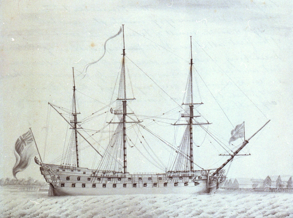 Invincible 74 guns commanded by Sir John Bentley Kt in the years 1749-1752 and of which this drawing was made by his Clerk during the time of St John's command.